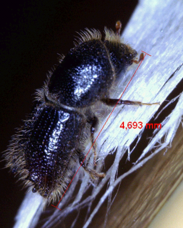 Larch bark beetle